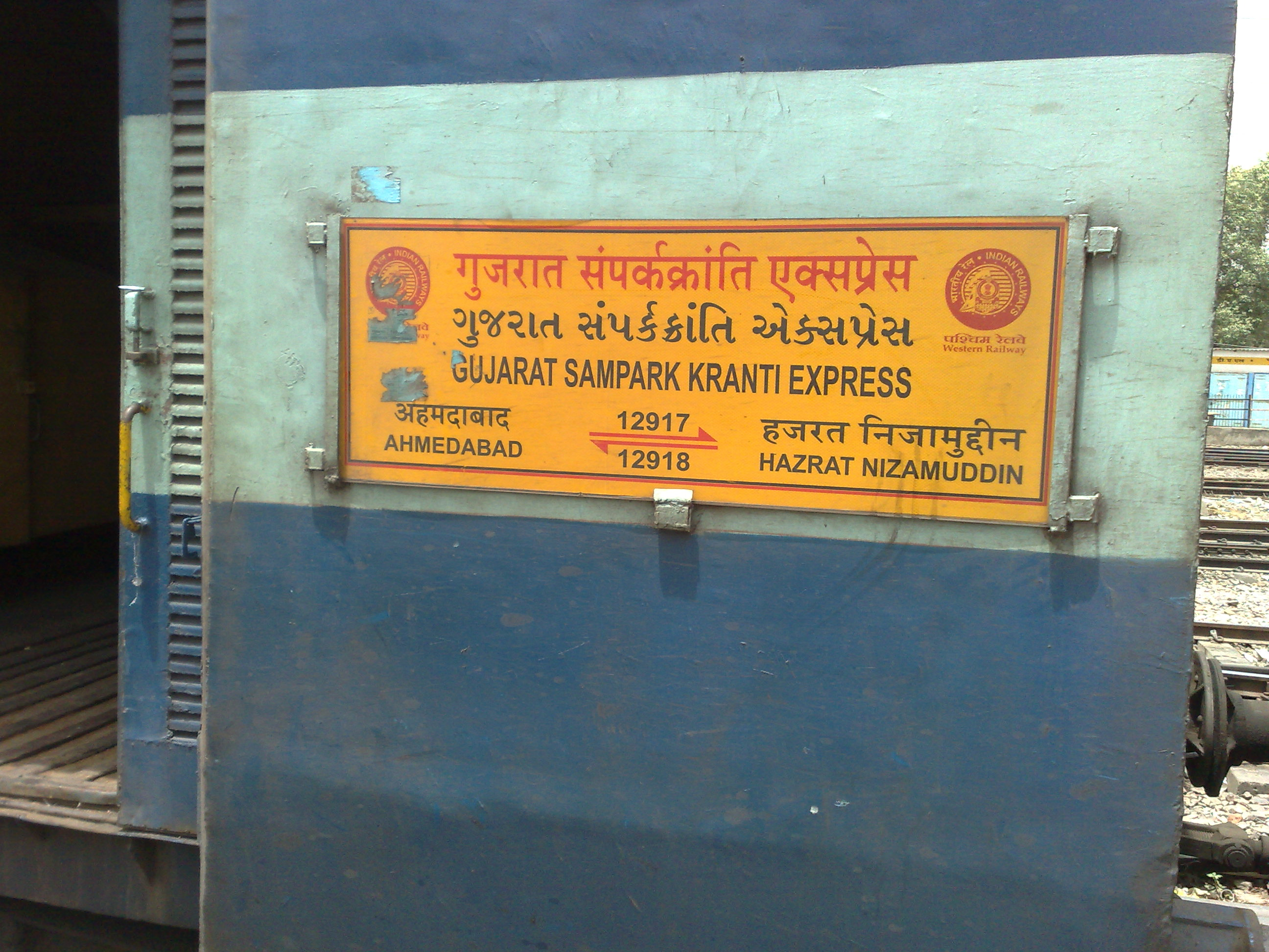 Gujarat Sampark Kranti Express